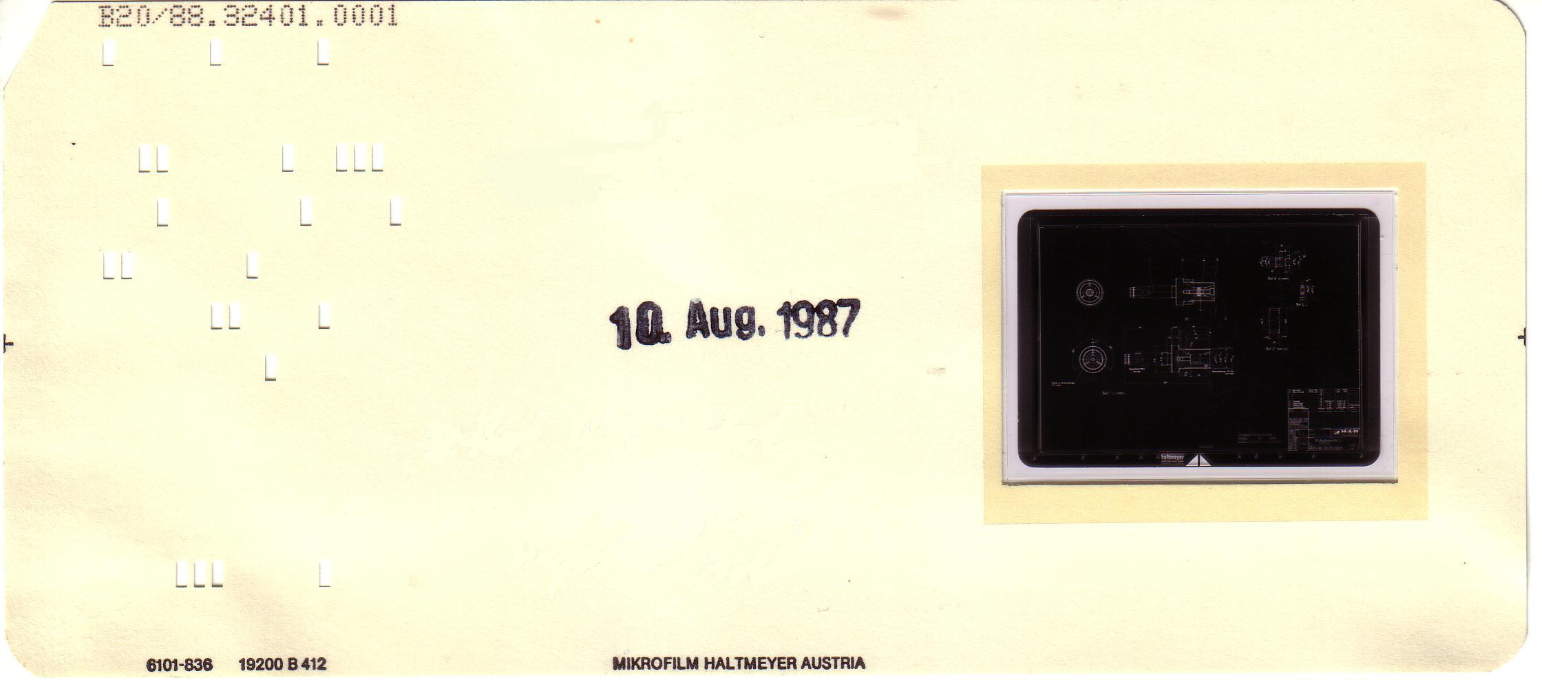 Aperture card (punch card with a glued-in Microform) of a technical drawing from the 1980s